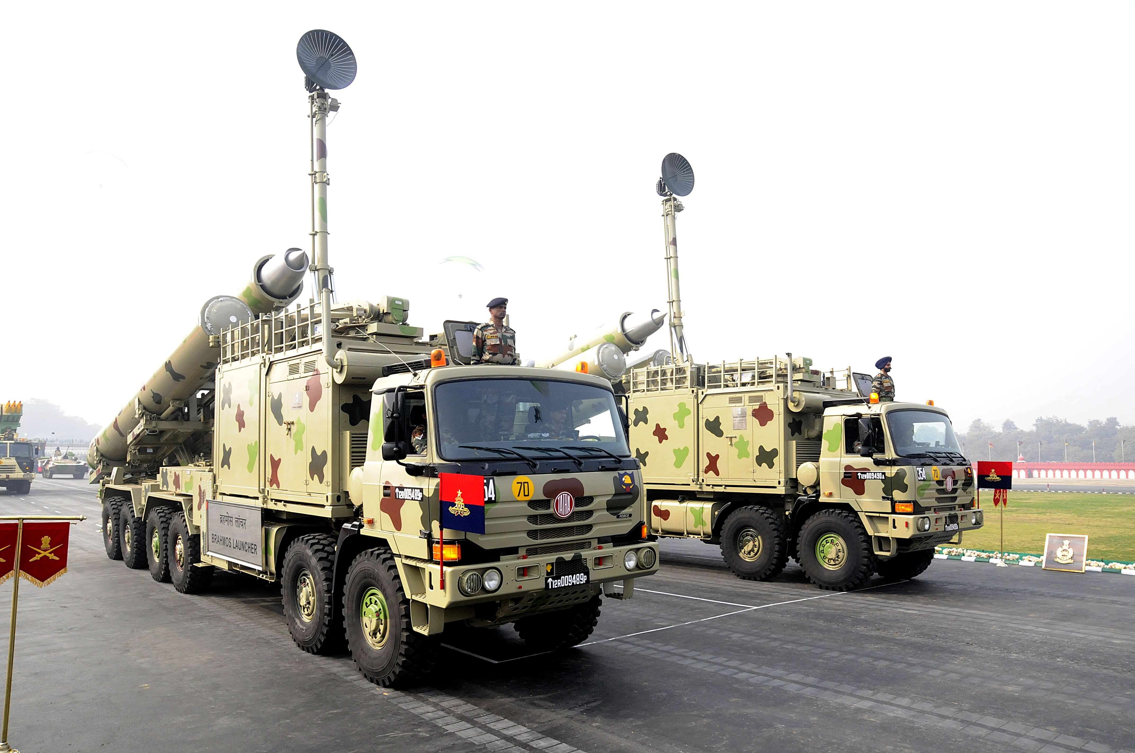 I have take this photo Army Day